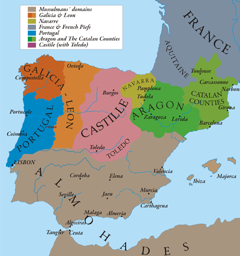 This map show Al-Andalus (Almohades) and European Christian kingdoms. 12th-13th centuries. It´s made from "The Historical Atlas by William R. Shepherd, 1926".